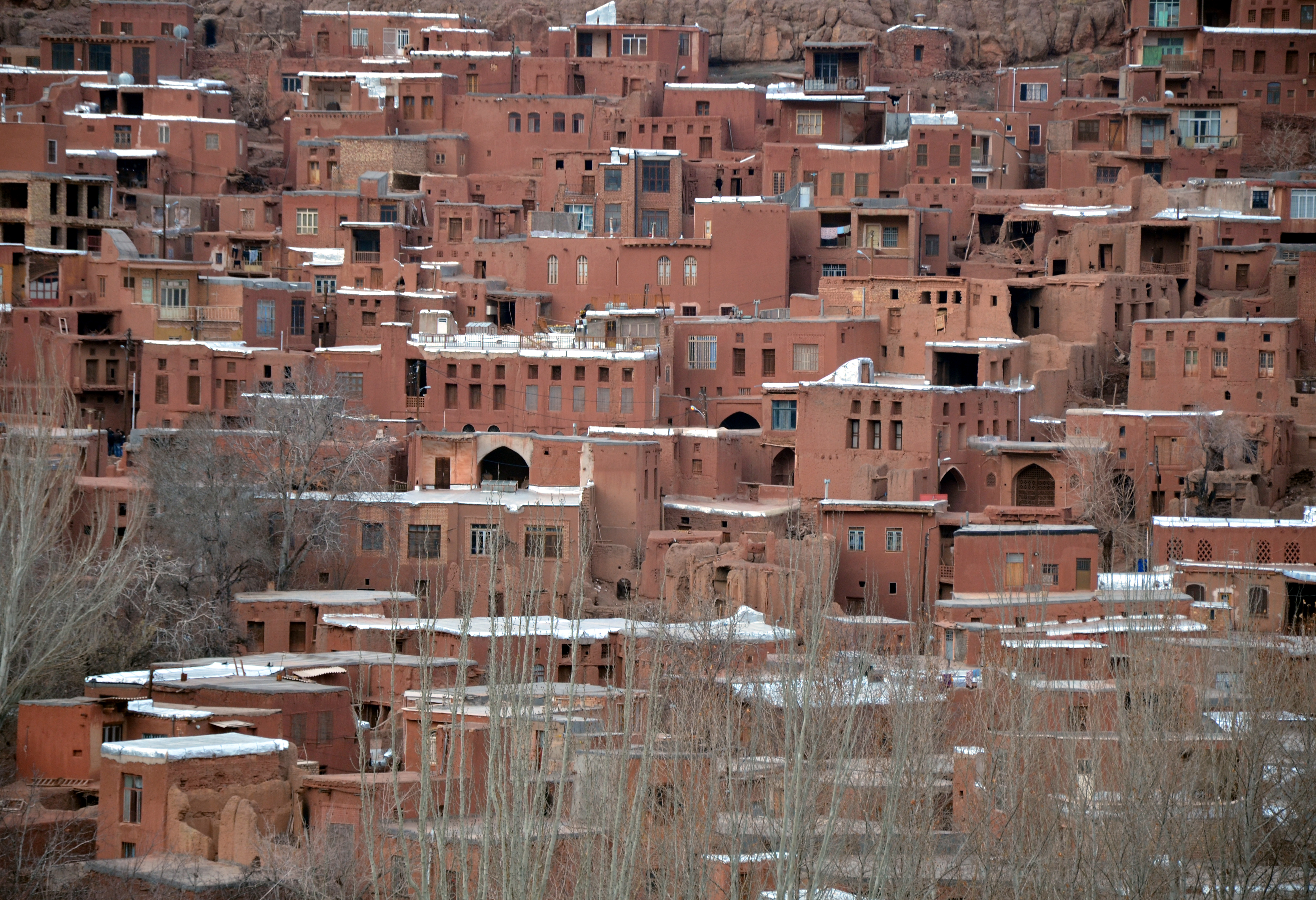 Iran - Abiyaneh